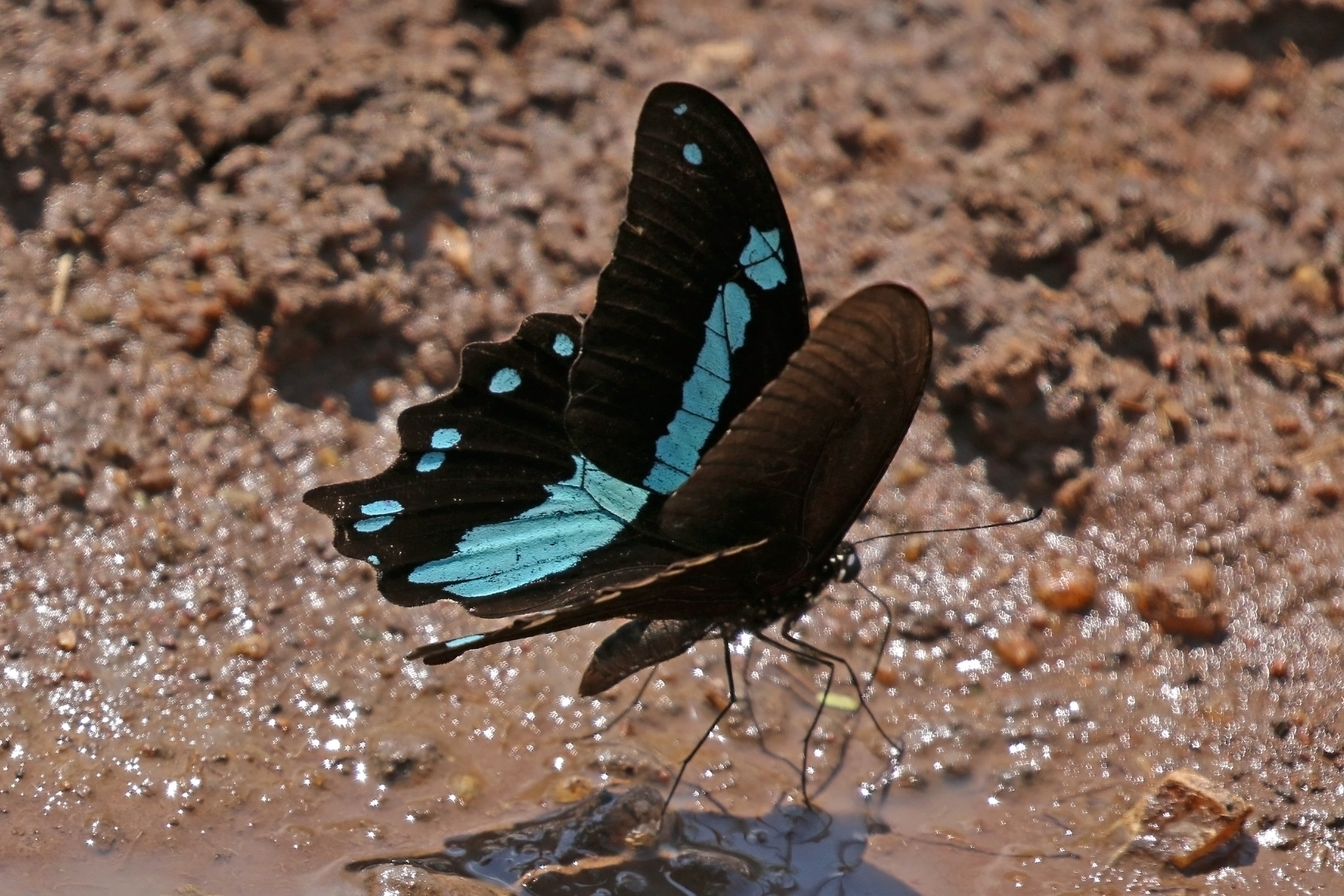 Narrow blue-banded swallowtail (Papilio nireus lyaeus), Semliki Wildlife Reserve, Uganda